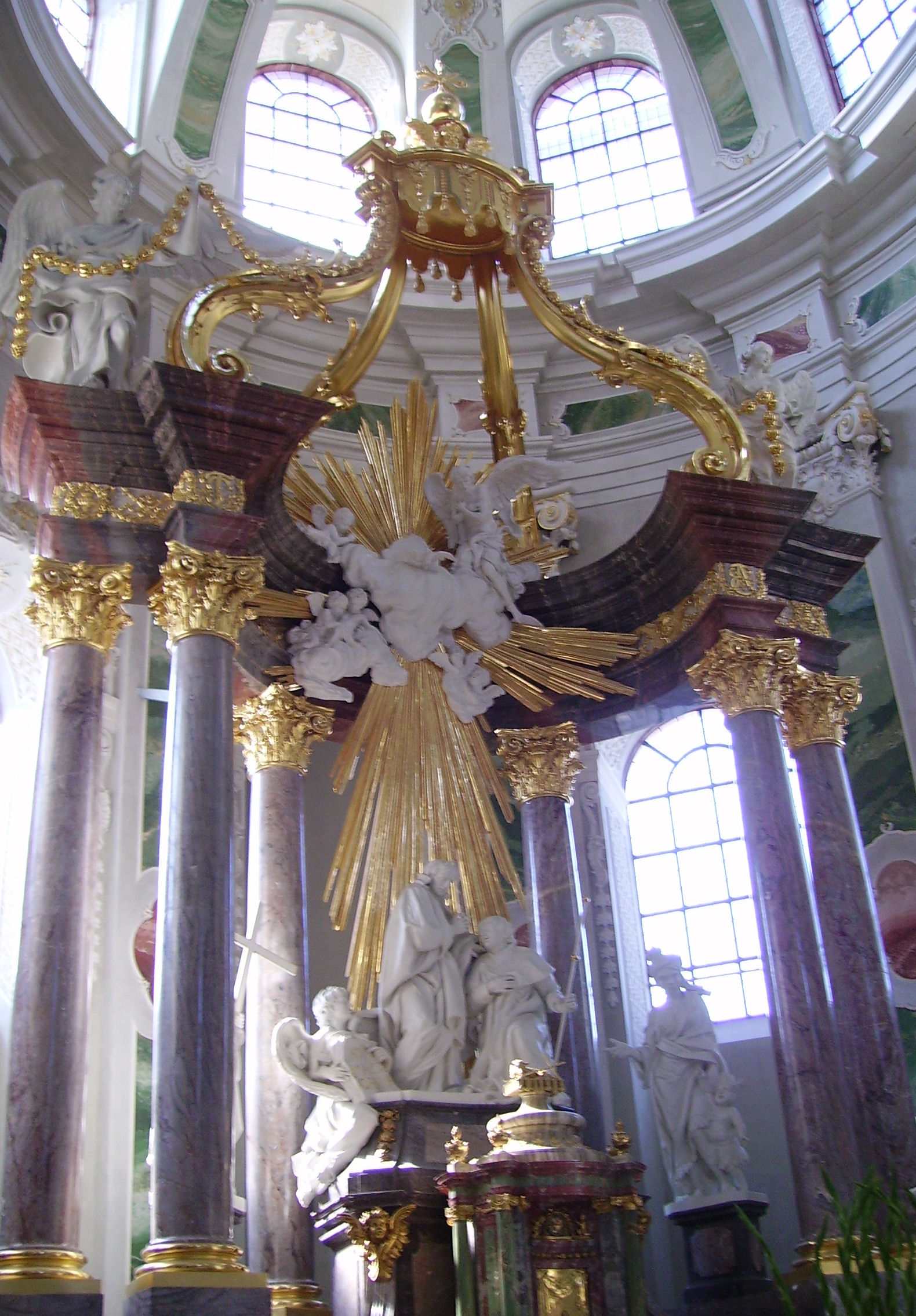 inside of the Jesuit's church in Mannheim, Germany